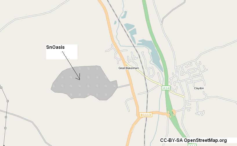 Map of Snoasis Site